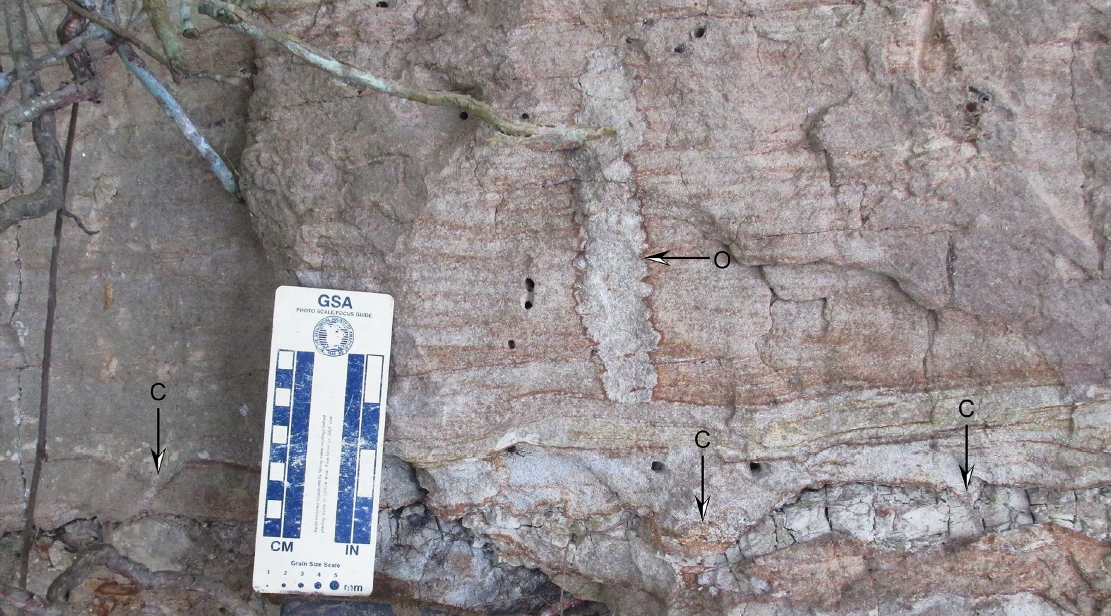 Ichnofossils of the Alajuela Formation, Panama